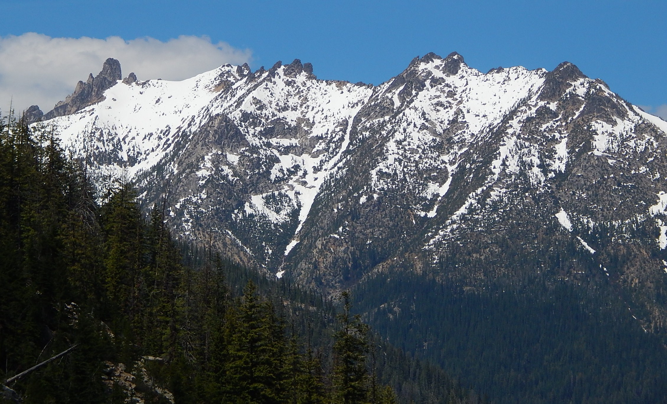 The Needles of the North Cascades, seen from eastbound Highway 20